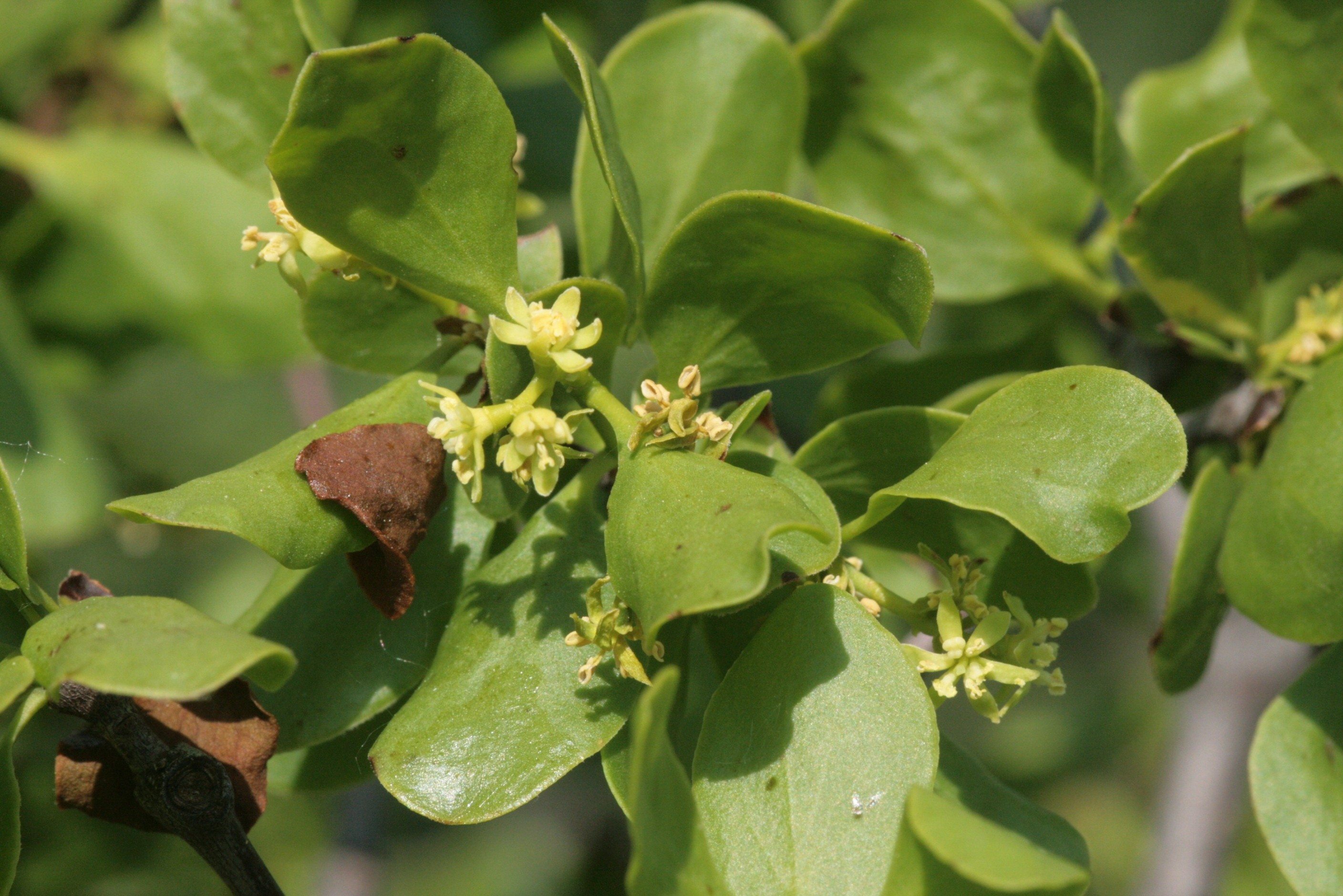 Loranthus europaeus